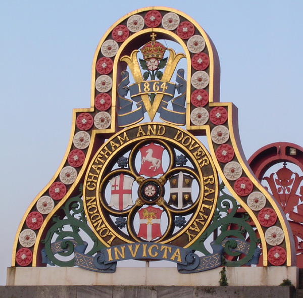 Crest of the London, Chatham and Dover Railway on the first Blackfriars Railway Bridge